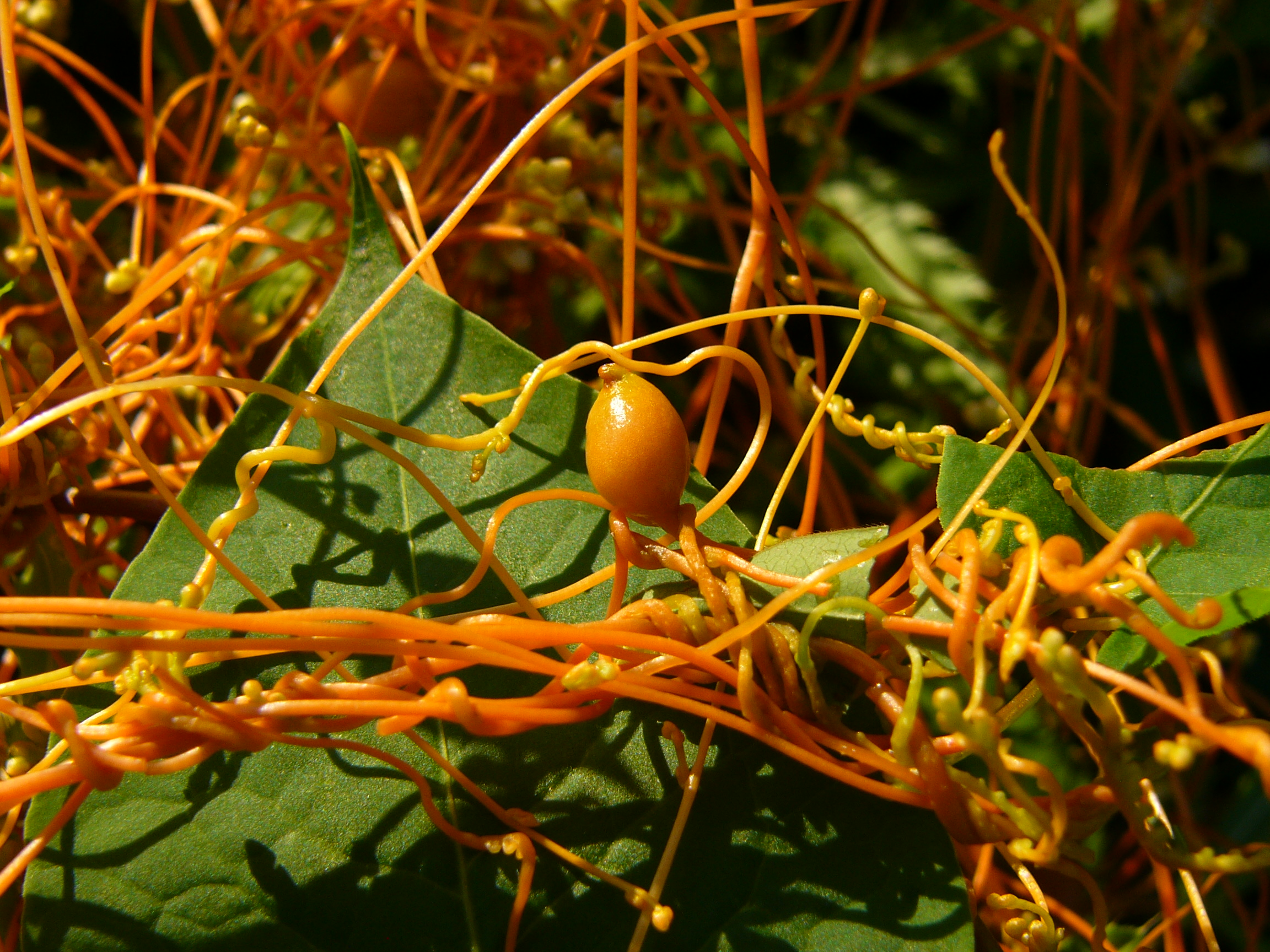 Close up view of the parasitic dodder (Cuscuta) vine bearing an insect-induced gall. The mass of the infestation was localized near a stream flowing through a partially wooded field. This photo was taken on August 19, 2010 in northern Bucks County, in the USA.